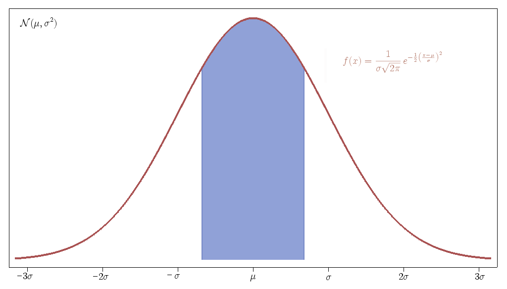 Normal distribution. Shows the interquartile range of a normal distribution. Ploted with GNU R and finished with "The Gimp".